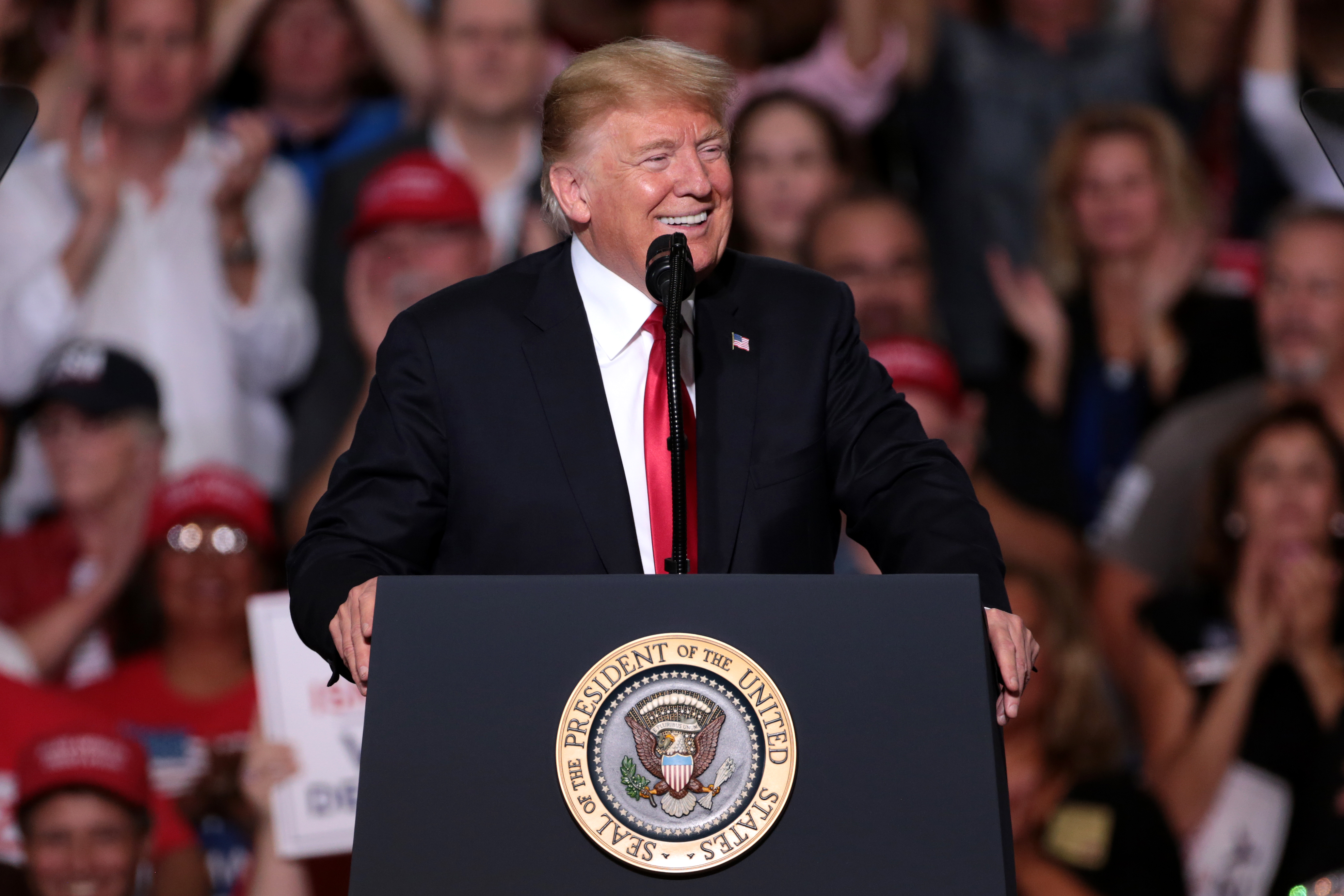 President of the United States Donald Trump speaking with supporters at a Make America Great Again campaign rally at International Air Response Hangar at Phoenix-Mesa Gateway Airport in Mesa, Arizona.